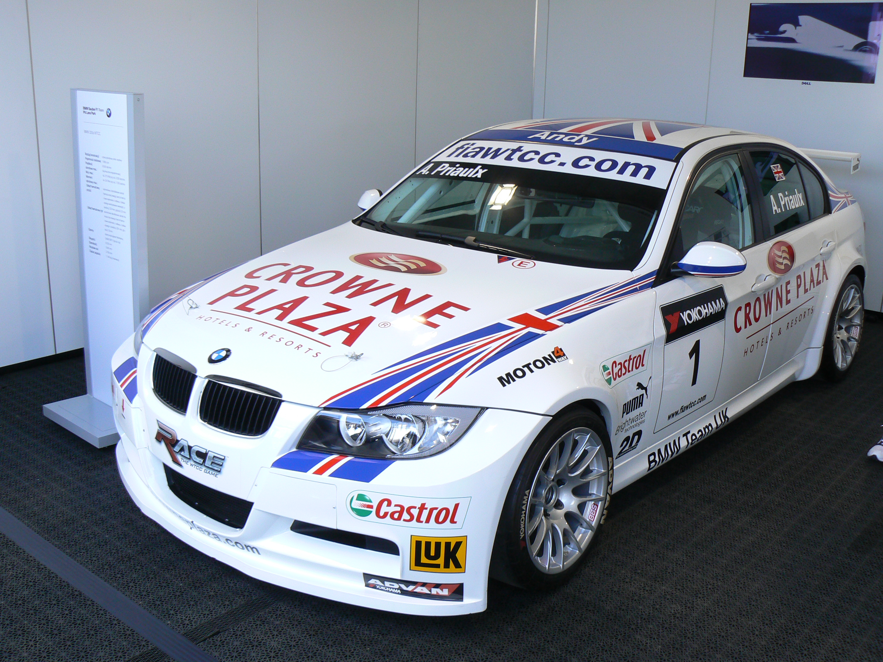 Andy Priaulx's BMW 320si WTCC - photographed during BMW Sauber F1 Team Pit Lane Park